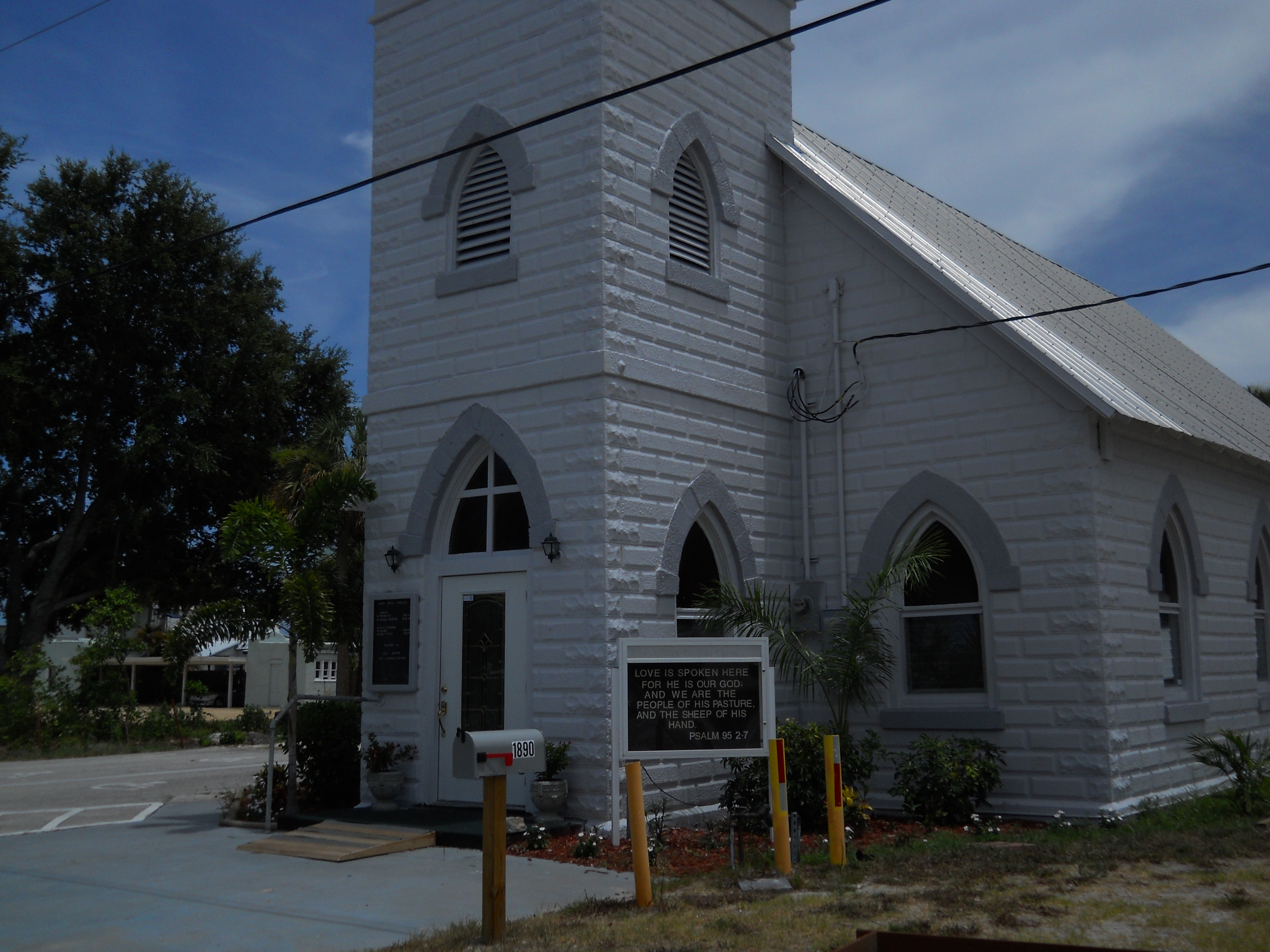 Jensen Beach Christian Church entrance detail. Front door is not original.